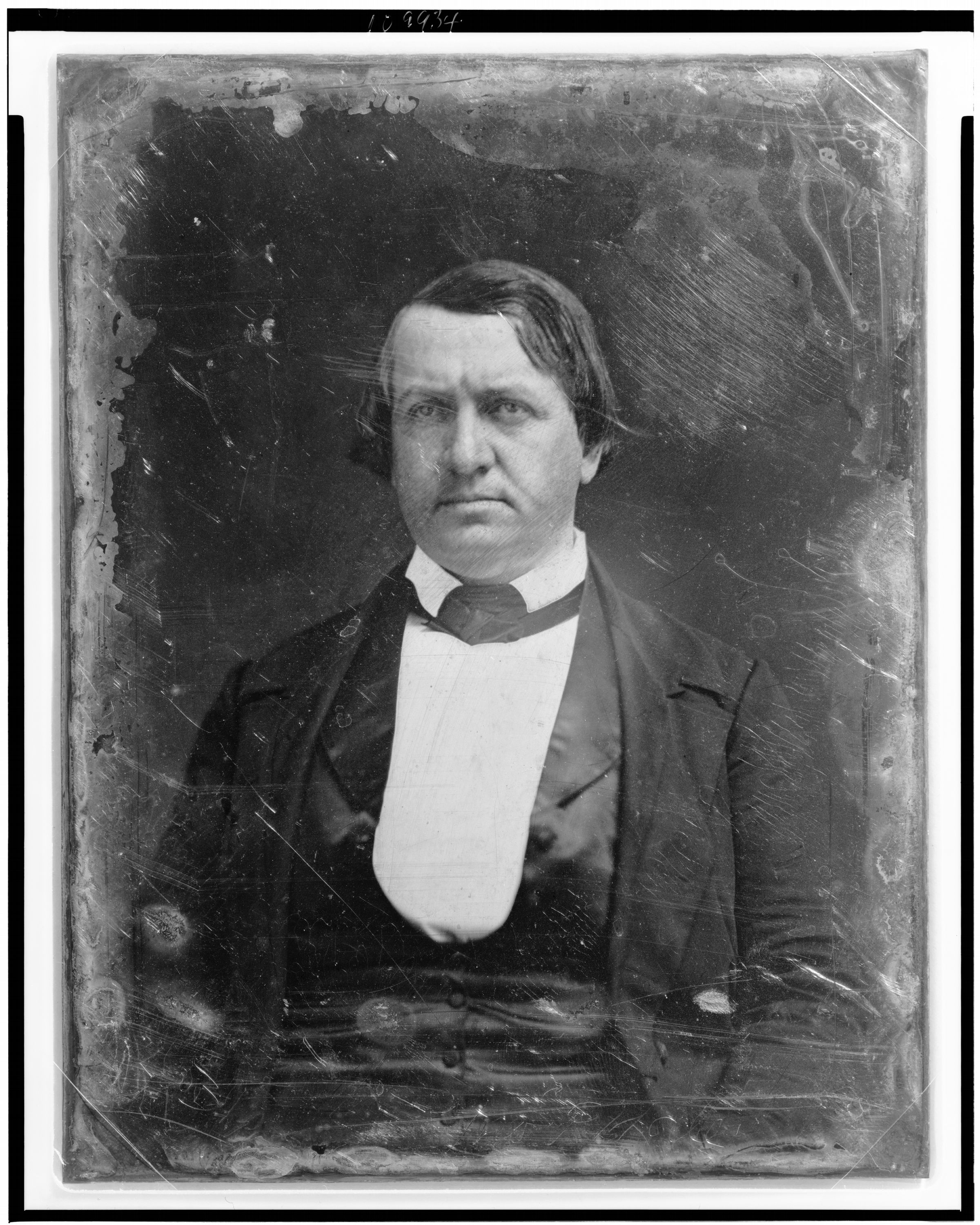 John P. Hale, head-and-shoulders portrait, facing front . Democratic Congressman from New Hampshire, 1843-1845, 1847-1853, 1855-1865; Free Soil candidate for President, 1852.